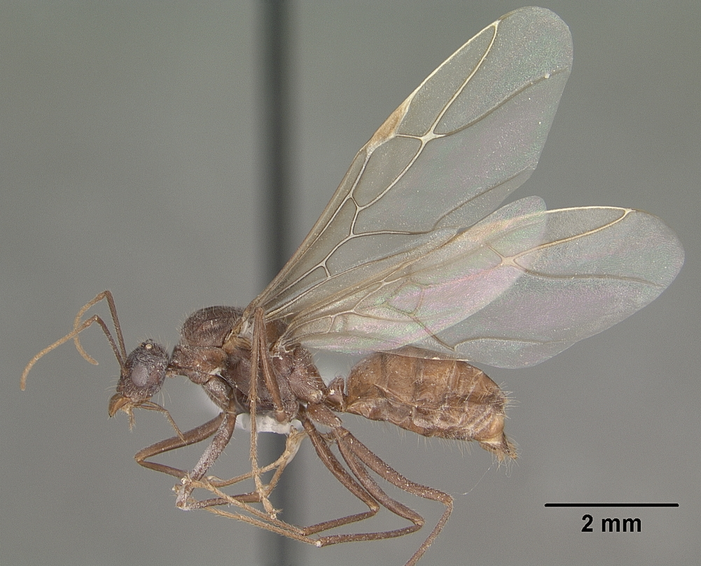 Profile view of ant Myrmecocystus mendax specimen casent0102812.